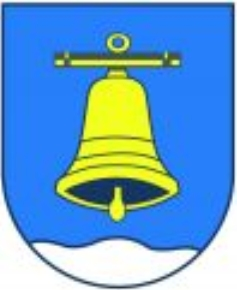 Coat of arms of the municipality Balje in Lower Saxony, Germany